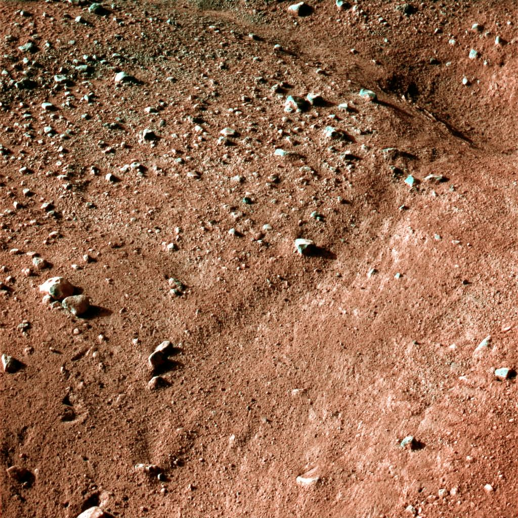 This image shows a polygonal pattern in the ground near NASA's Phoenix Mars Lander, similar in appearance to icy ground in the arctic regions of Earth. Phoenix was confirmed to have touched down on the Red Planet at 22:53 GMT, 25 May, 2008, in an arctic region called Vastitas Borealis, at 68 degrees north latitude, 234 degrees east longitude. This is an approximate-colour image taken shortly after landing by the spacecraft's Surface Stereo Imager, inferred from two colour filters, a violet, 450-nanometre filter and an infrared, 750-nanometre filter. The Phoenix Mission is led by the University of Arizona, Tucson, on behalf of NASA. Project management of the mission is by NASA's Jet Propulsion Laboratory, Pasadena, California. Spacecraft development is by Lockheed Martin Space Systems, Denver.